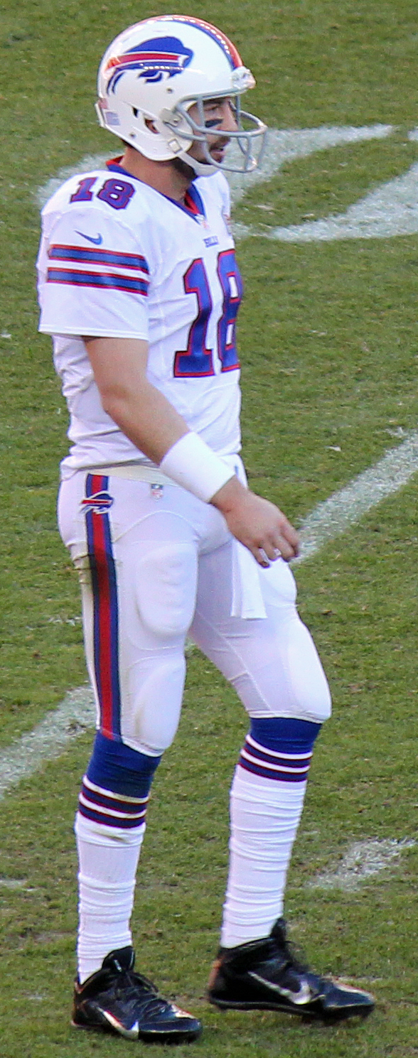 Kyle Orton, a player on the National Football League.